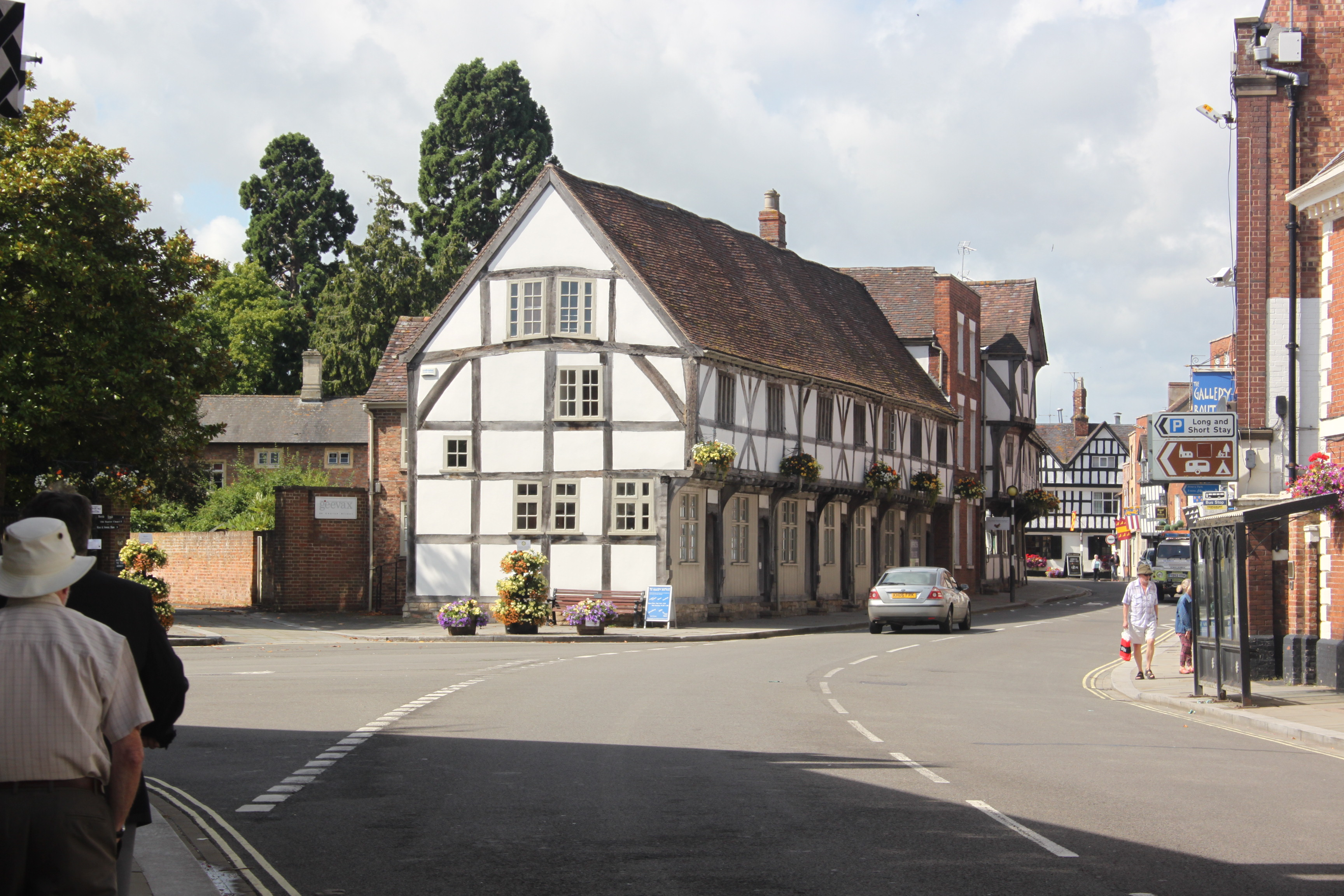 ABBEY LAWN COTTAGES Wikidata has entry Q17526393 with data related to this building.